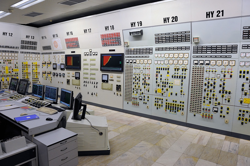 A view inside the control and monitoring room of Unit 5 of the Kozloduy Nuclear Power Plant.